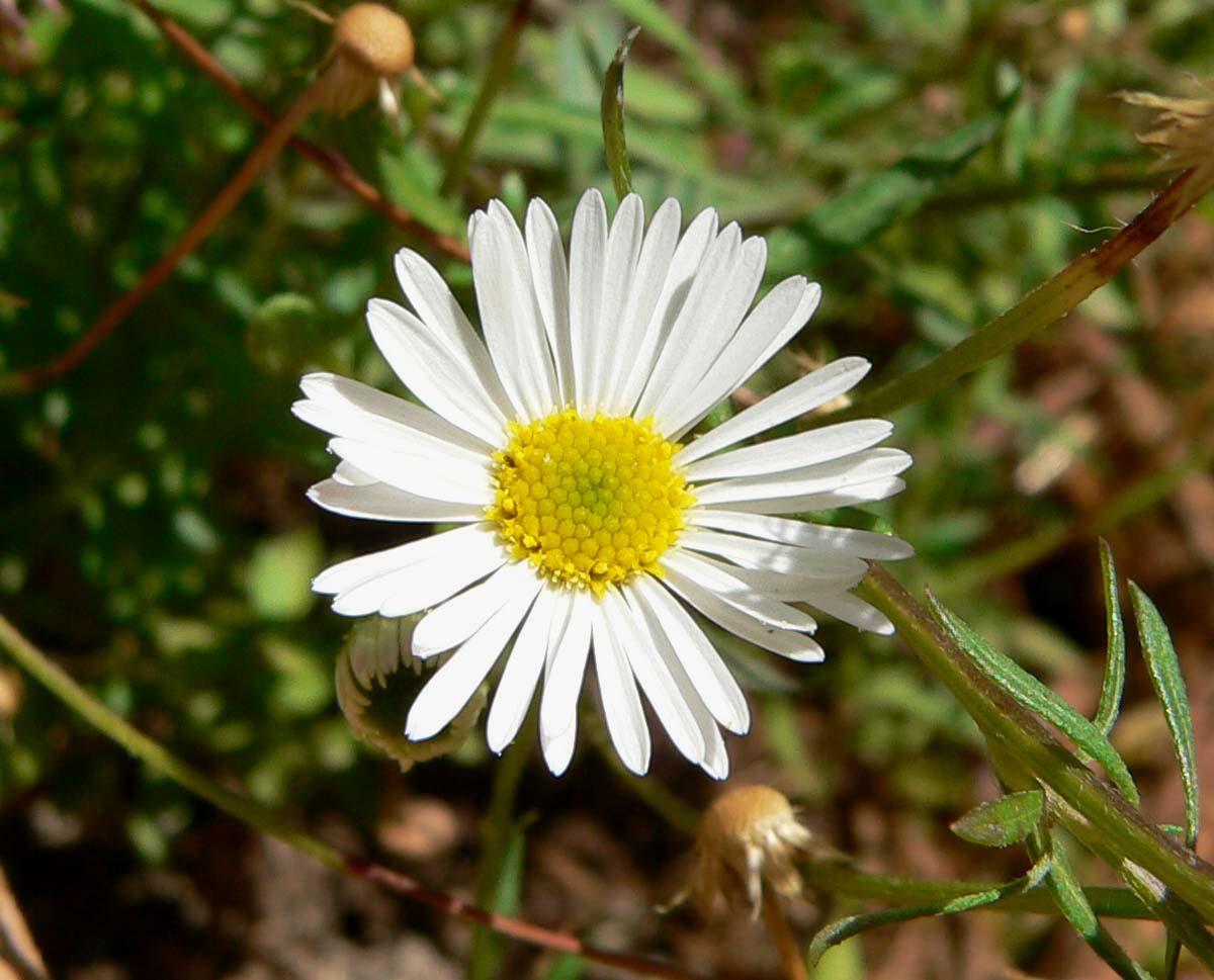 Photo of Erigeron karvinskianus (Mexican daisy) at the Springs Preserve garden in Las Vegas, Nevada